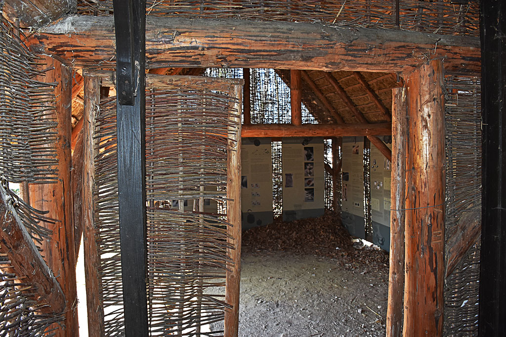 In Rifnik archeological parc one building is made like a bronze age house and in its interior an archeological exhibition is arranged. On many panos you can learn everything avout the site.